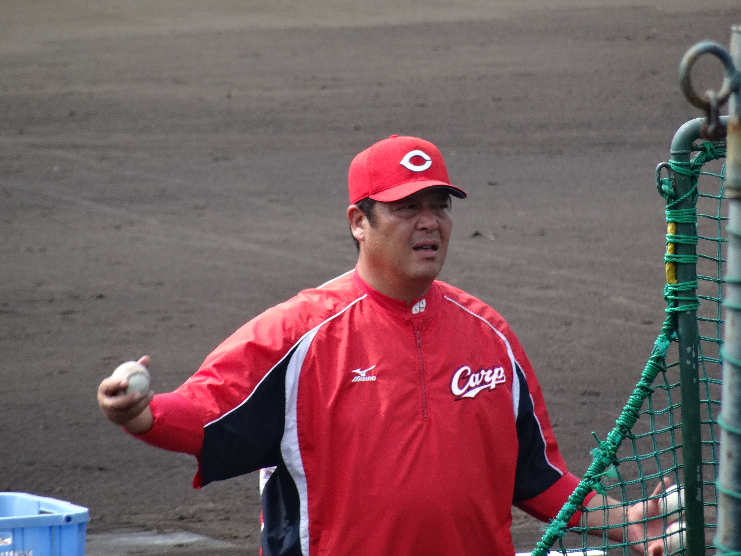 Katsumi Mizumoto, coach of the Hiroshima Toyo Carp, at Hanshin Naruohama Baseball Ground.